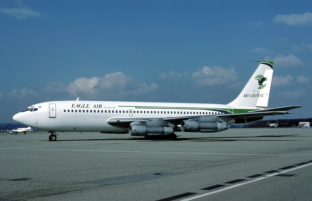 Eagle Air of Iceland Boeing 720-047B at EuroAirport